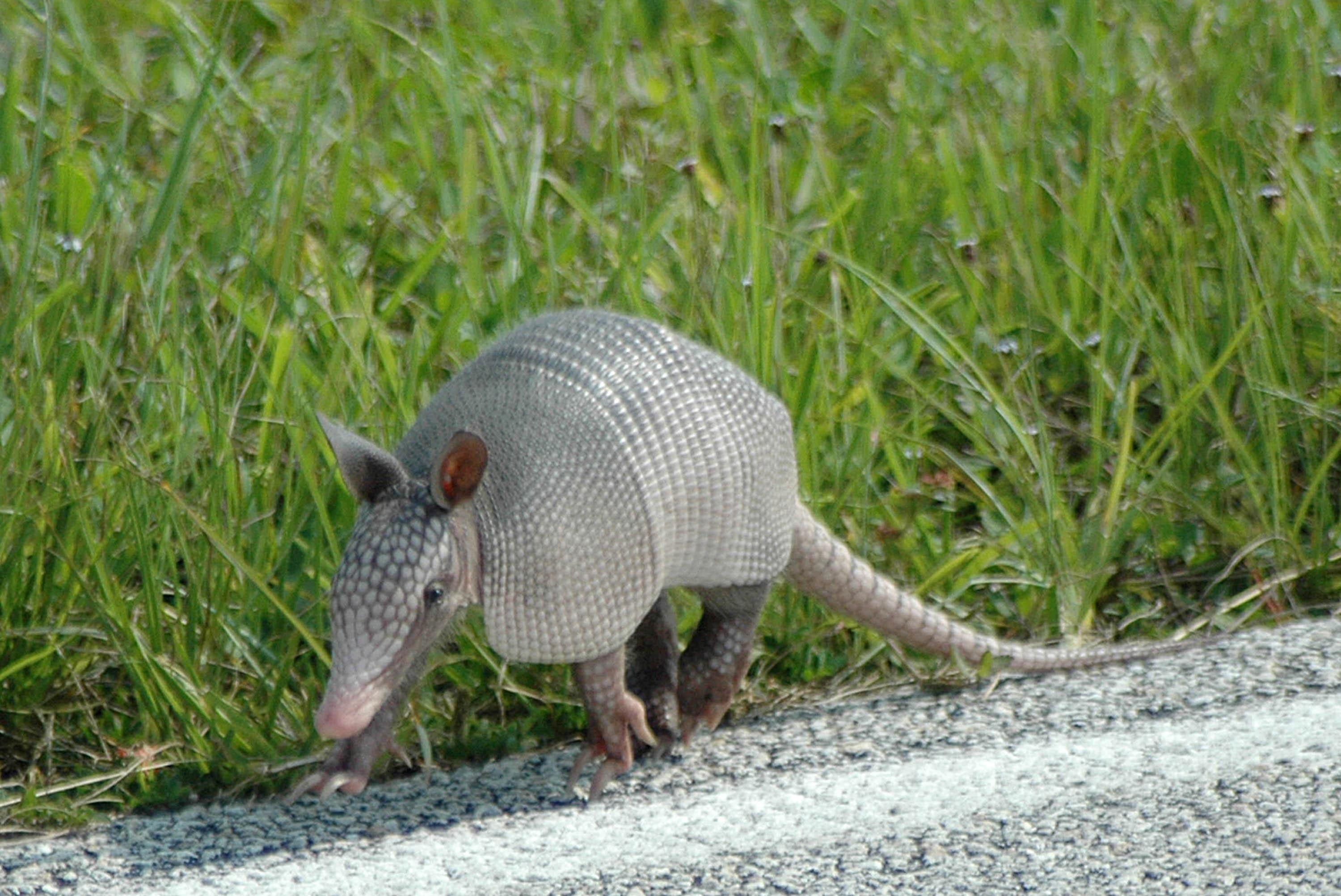 A baby nine-banded armadillo makes its way along the roadside near Launch Pad 39A where Space Shuttle Endeavour waits for launch on mission STS-118. Introduced to Florida in the early 1900s, this species is found statewide in areas with dense ground cover and sandy soil. Nine bands of plates cover the body from shoulder to hip and 12 bands cover the long tail. It has a small, tapered head and snout and a long tongue. Its ears are long and hairless. and it has sparse white hairs on its belly. Its diet is composed of insects, especially beetles, and other invertebrates plus some plant foods such as junipers and beautyberries. It is primarily nocturnal, sedentary, solitary and a burrower. It digs a series of dens with multiple entrances usually protected by stumps, palmettos or trees. KSC shares a boundary with the Merritt Island Wildlife Nature Refuge. The refuge is a habitat for more than 310 species of birds, 25 mammals, 117 fishes and 65 amphibians and reptiles.